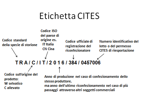 explanation in italian Language of caviar label according Cites regulation